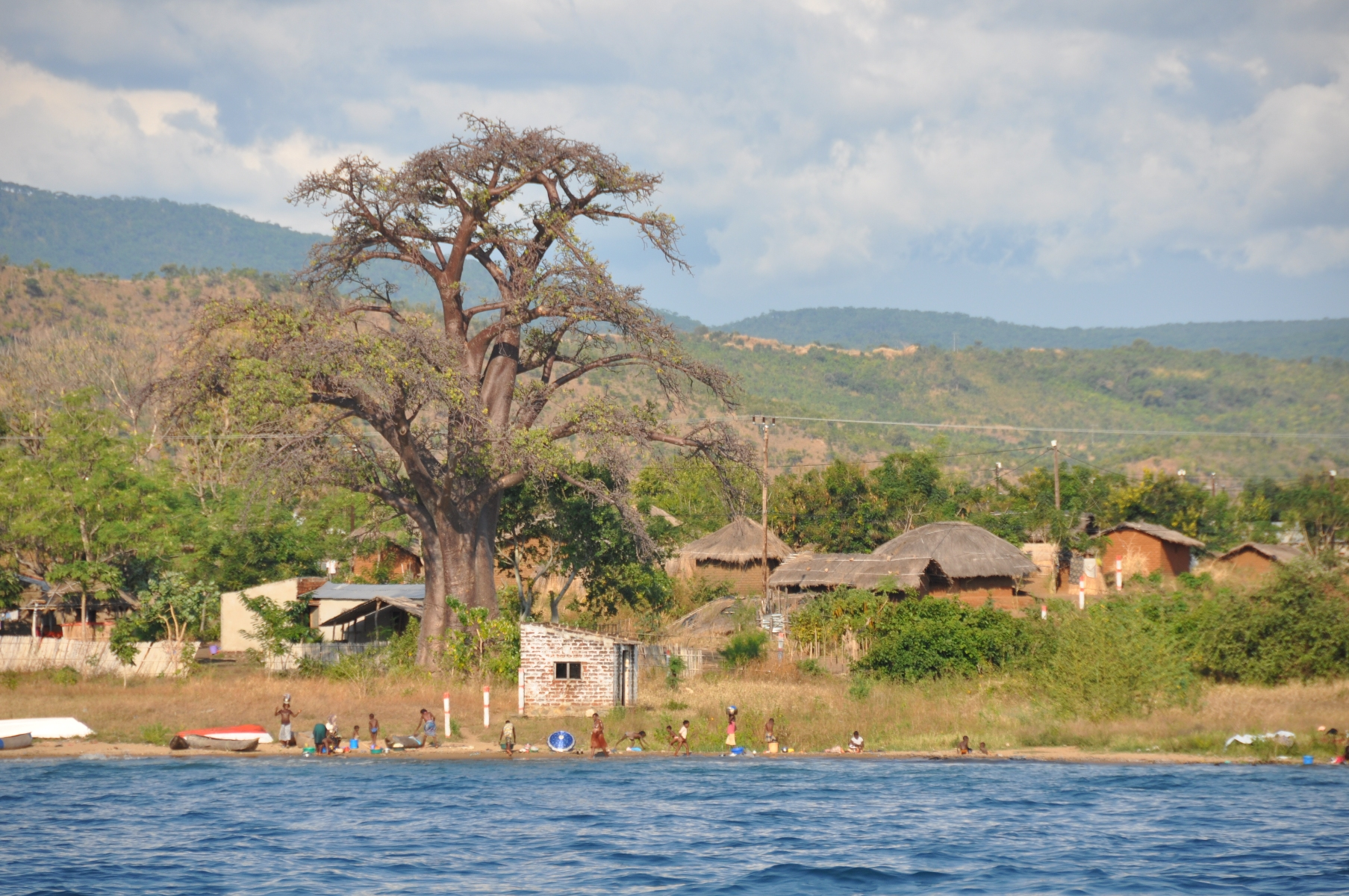 According to Robert Layng, a Foreign Service Officer at USAID who has taken a leading role in USAID’s support to WWF and the government of Mozambique, attracting private investment into the tourism sector is central to ensuring that the Reserve realizes its potential to create economic opportunity. “The end goal is to ensure financial sustainability of the reserve, Targeted growth in the tourism sector is one of the best prospects for generating revenue for the reserve. The Tourism sector also creates jobs on Lake Niassa and highlights the economic value of protecting the lake while also providing revenue from sustainable resource use”, said Mr. Layng. USAID has worked in partnership with the government of Mozambique, the World Wildlife Fund, and the Coca-Cola Company to protect the species and natural habitats of the of the most biodiverse freshwater lake on earth. Protecting Lake Niassa creates important economic opportunities for local fishing and tourism industries. (Photo: Christian Smith/USAID)